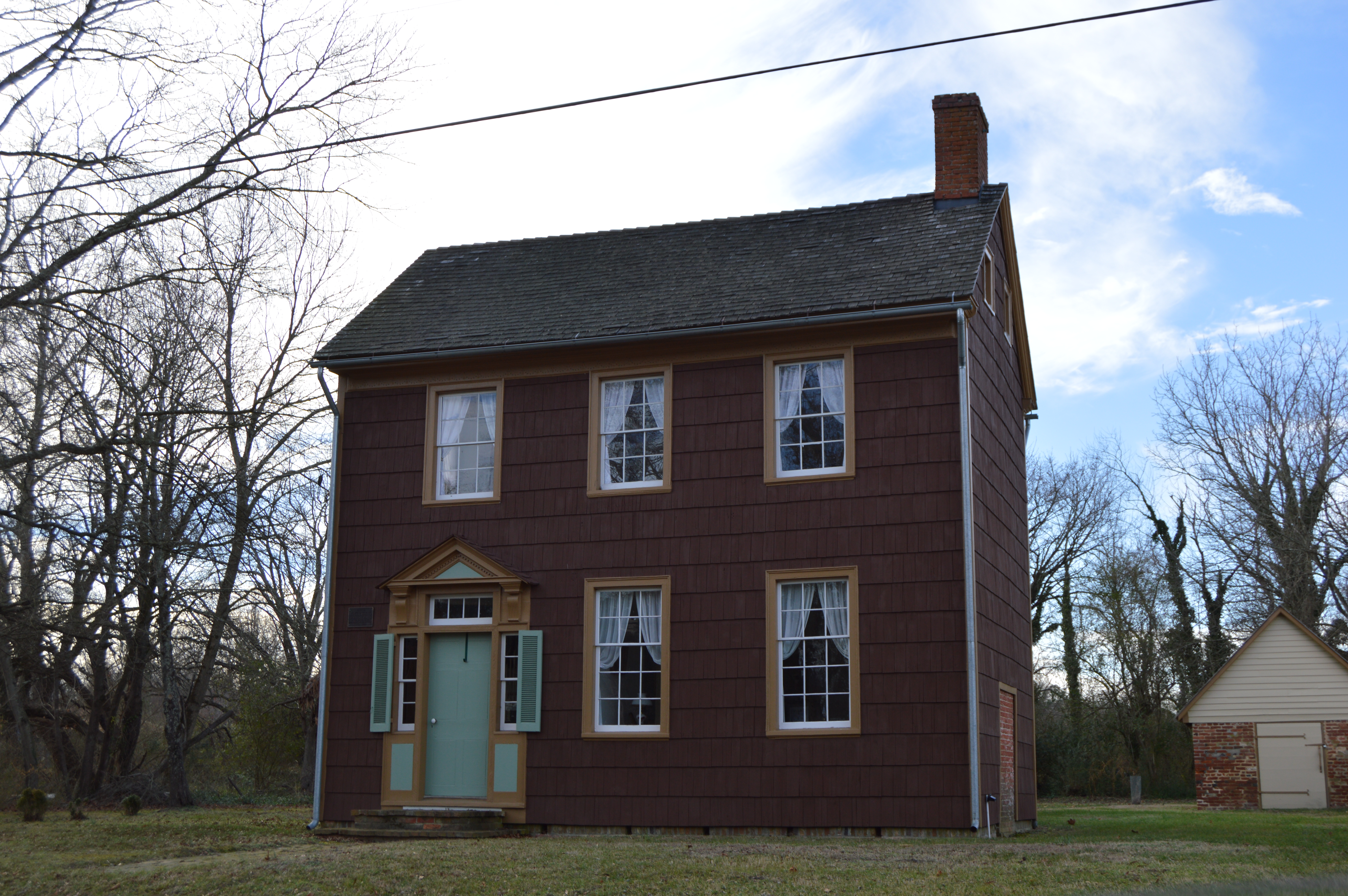 Front and northern side of Exeter, located on Old Denton Road just north of the Federalsburg town limits in Caroline County, Maryland, United States. It is listed on the National Register of Historic Places.